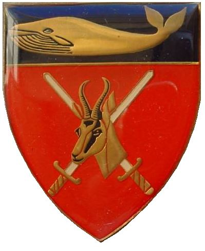 SADF Walvis Bay Military Area Command